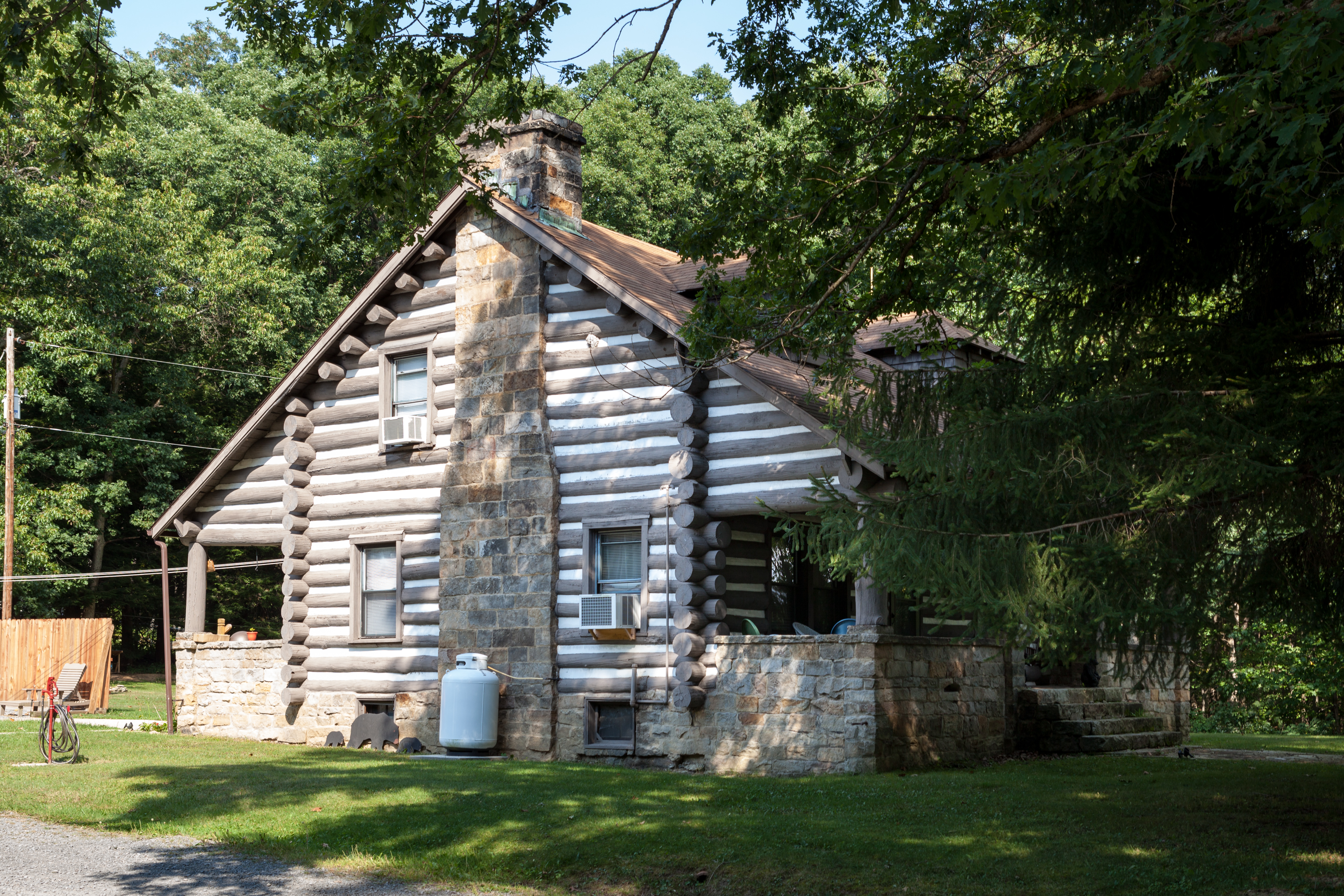 The historic log house, part of Coopers Rock State Forest Superintendent's House and Garage.